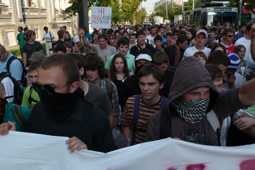 Protesters on action against police arbitrariness in Kyiv, Ukraine. The "No to police state" campaign.The right to use the photo: "You can reprint materials, published here, indicating a direct link to the website."